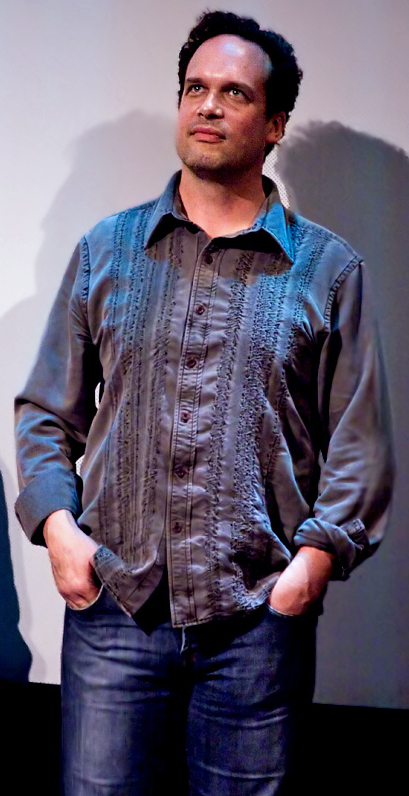 Diedrich Bader in Austin, Texas for an Office Space 10-year reunion.